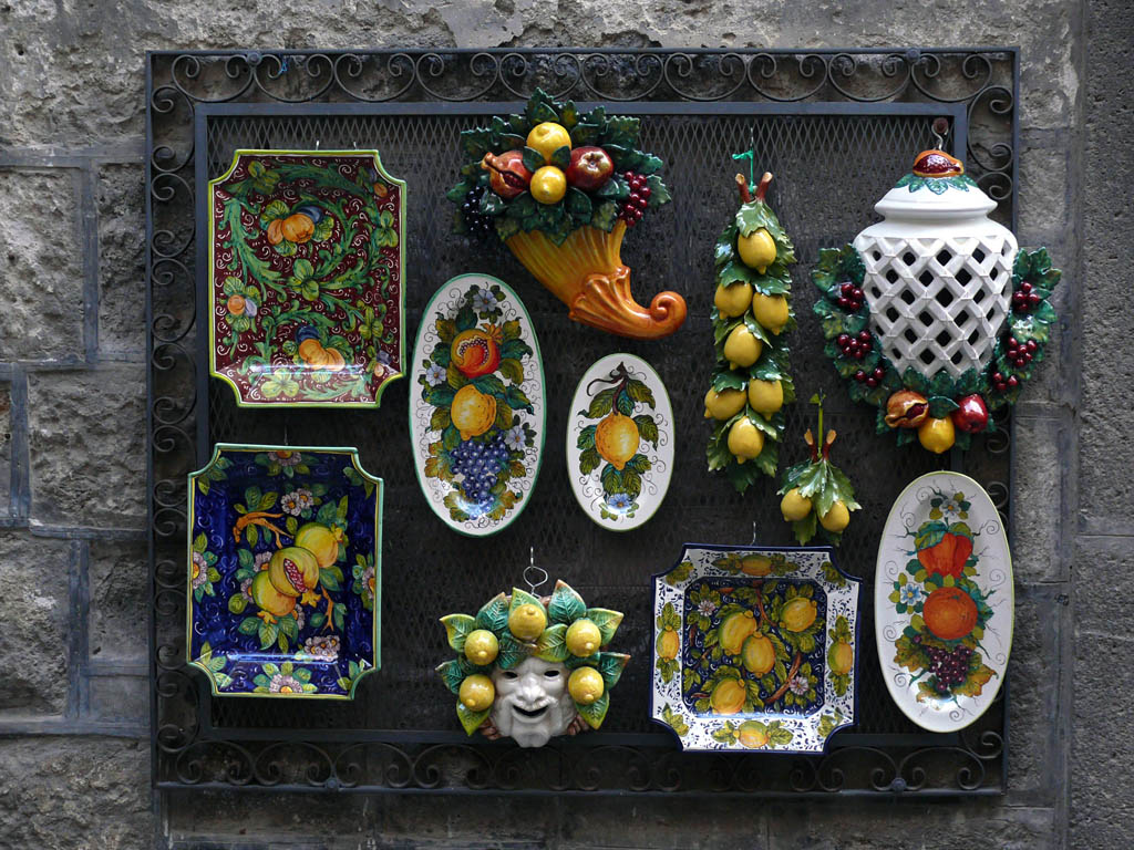 Orvieto: handicraft